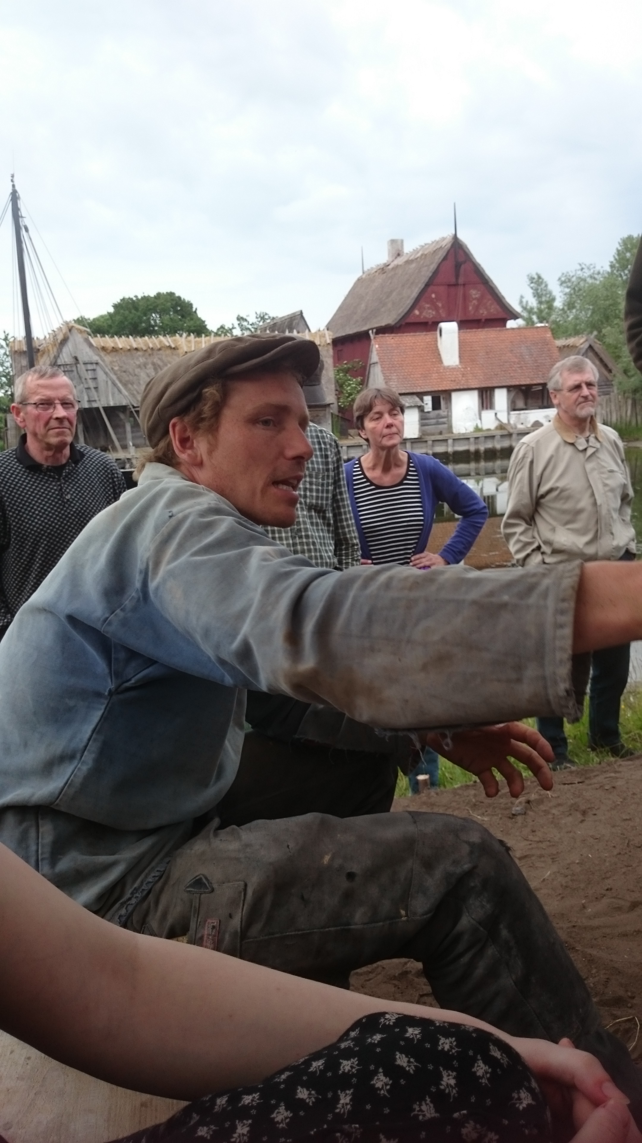 Frank Erichsen aka Bonderøven at Middelaldercentret.